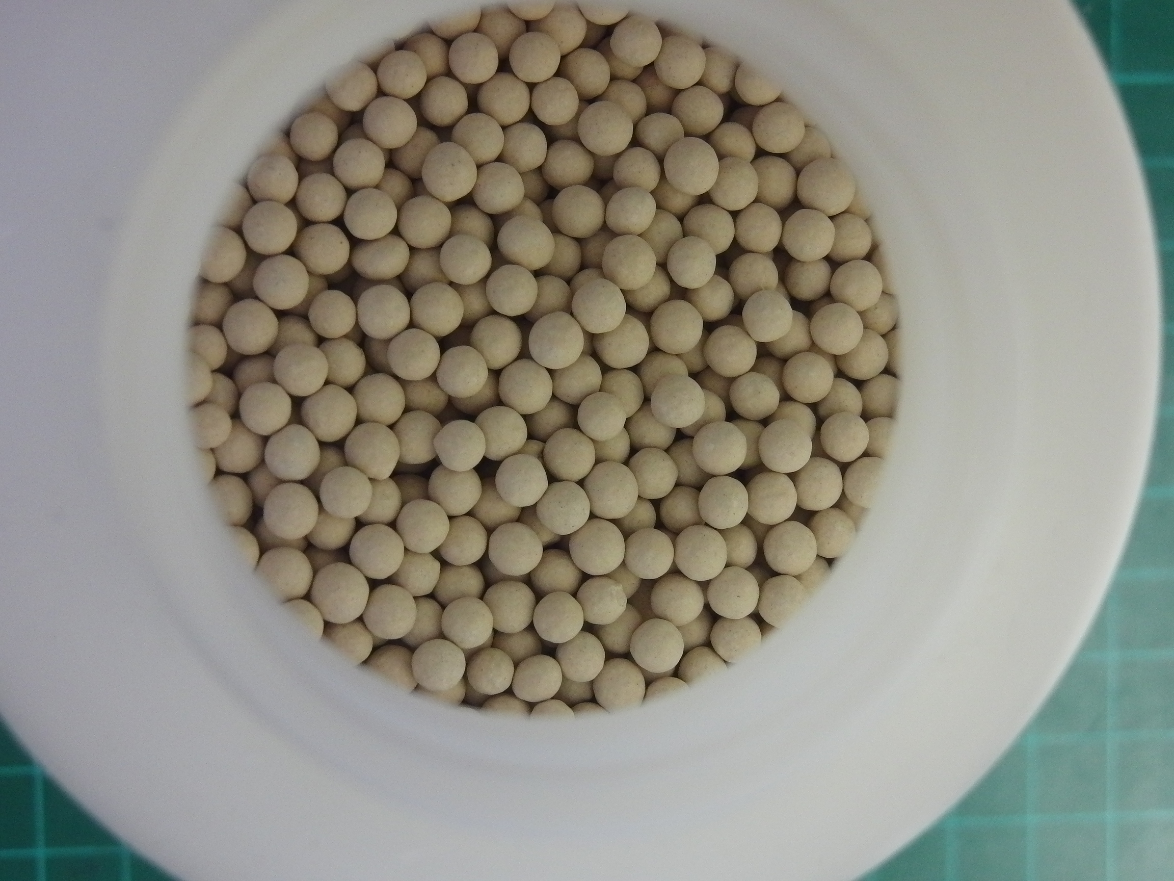 4A Molecular sieve.